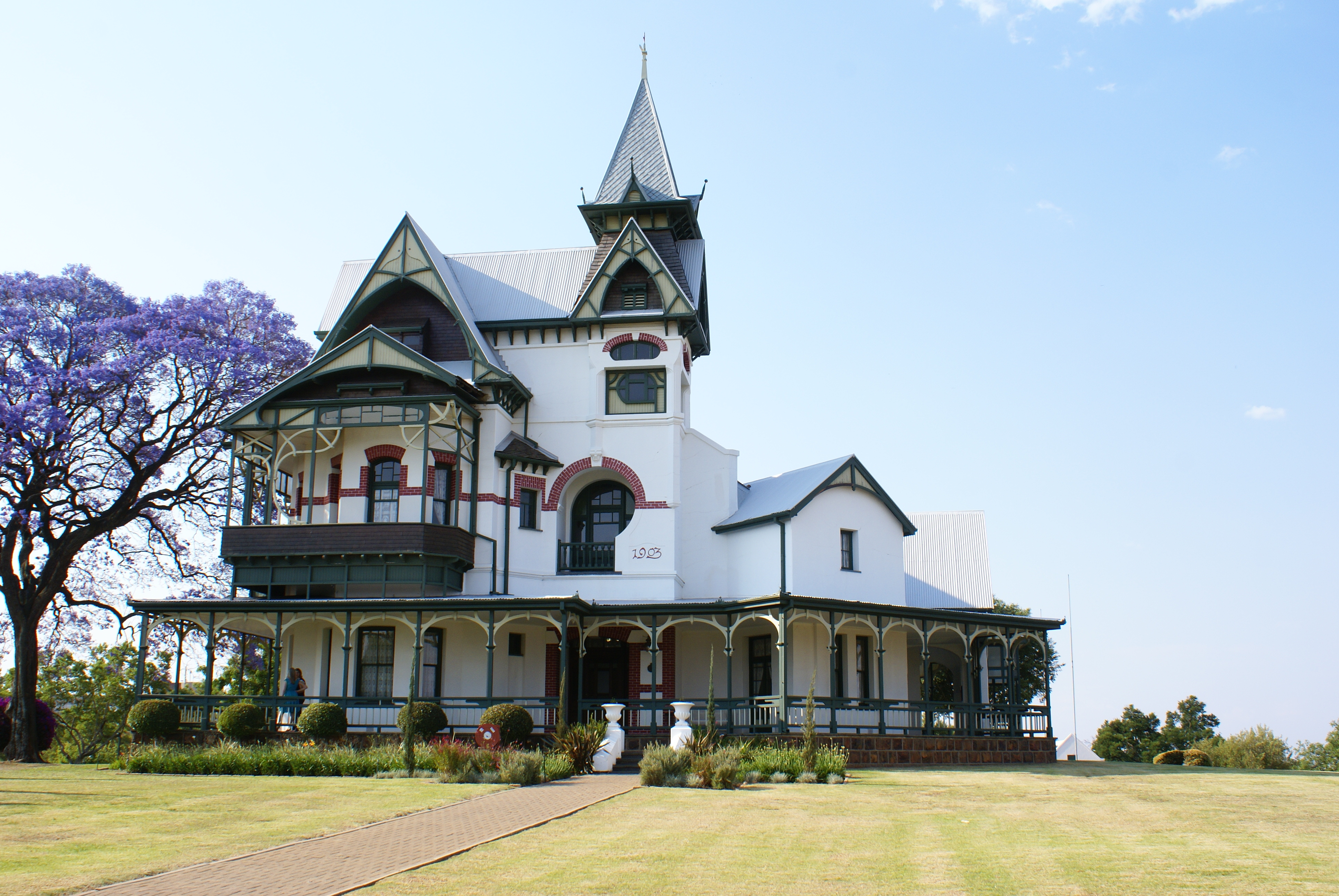 The Erasmus Castle, situated in Erasmuskloof in Pretoria, is rumored to be haunted. This media shows a South African Protected Site with SAHRA file reference 9/2/258/0028.